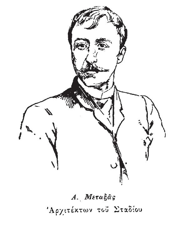 Anastasios Metaxas was a Greek architect and Greek Olympic medalist.